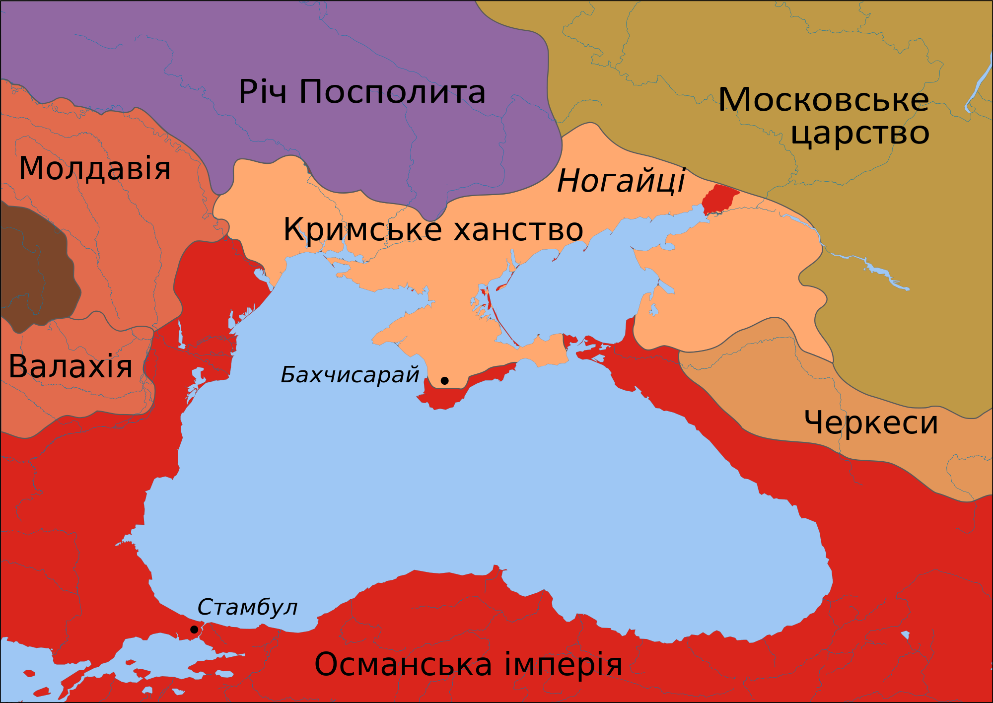 Political map of Black Sea region around 1600.